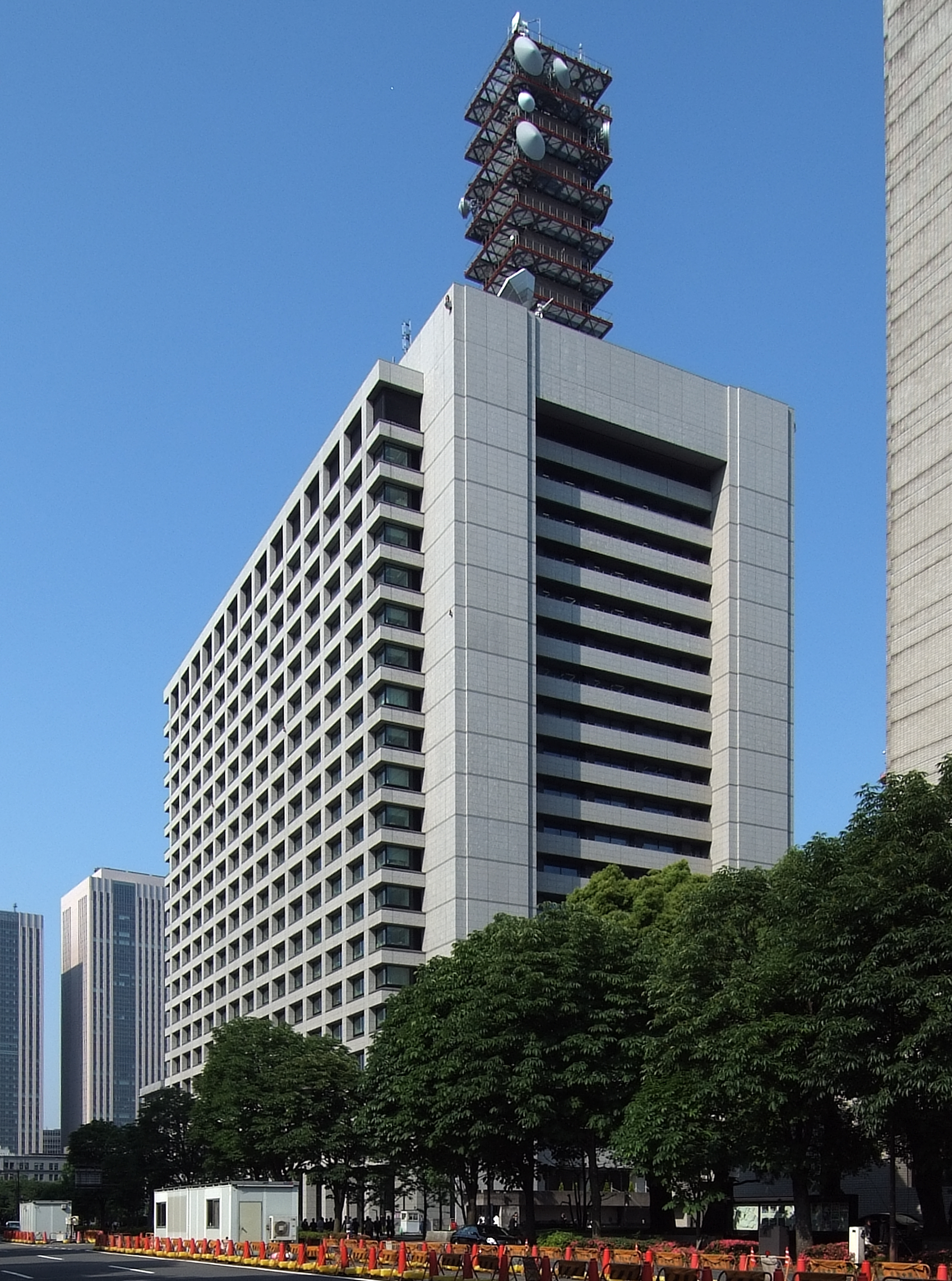 2nd Building of the Central Common Government Office at 2-1-2 Kasumigaseki in Minato, Tokyo, Japan It houses the Ministry of Internal Affairs and Communications (formerly Ministry of Public Management, Home Affairs, Posts and Telecommunications), the Japan Transport Safety Board (JTSB), and the National Public Safety Commission Prior to the 2008 establishment of JTSB, it housed the Japan Marine Accident Inquiry Agency (JMAIA) and the Aircraft and Railway Accidents Investigation Commission (ARAIC)